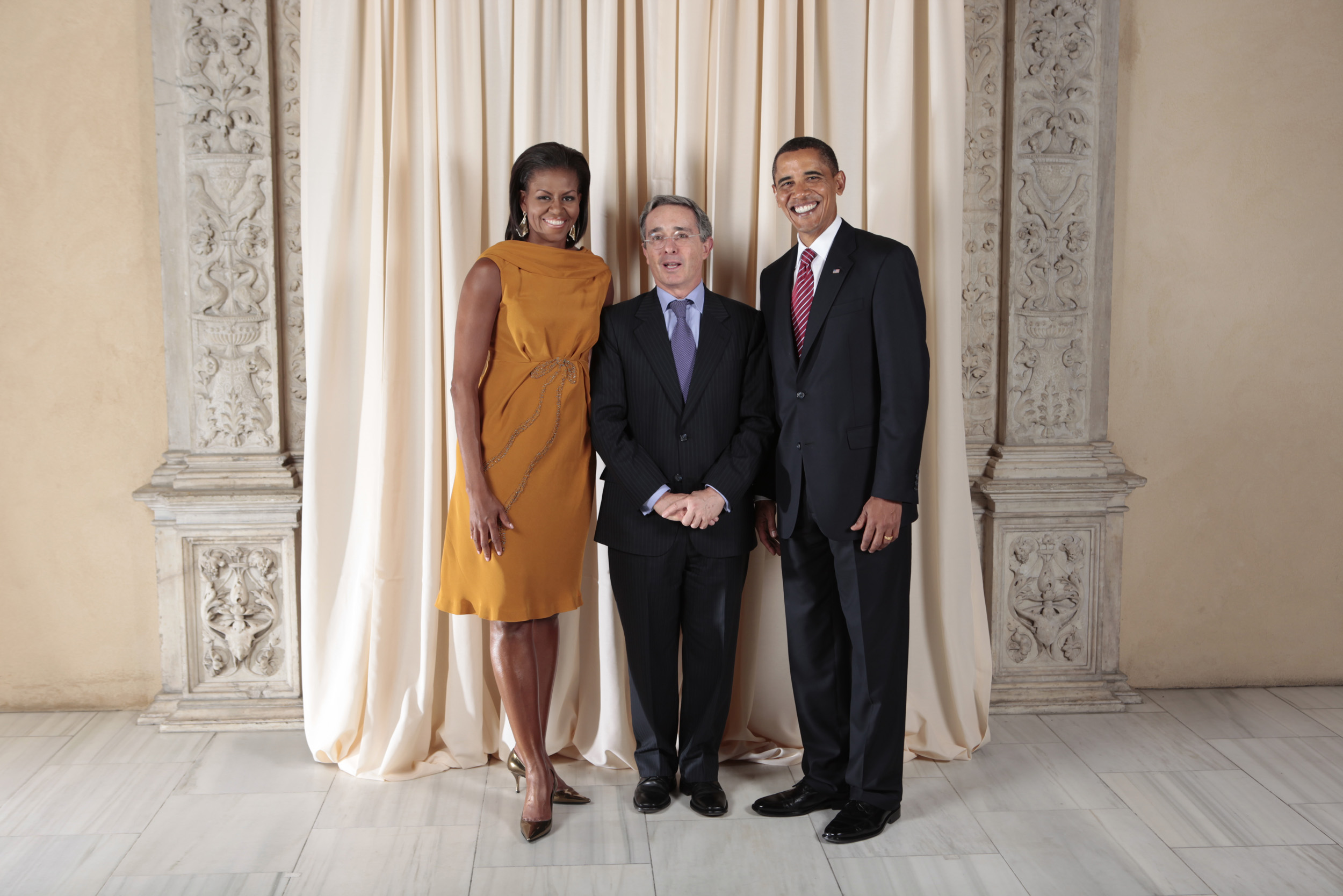 President Barack Obama and First Lady Michelle Obama pose for a photo during a reception at the Metropolitan Museum in New York with Alvaro Uribe Velez, President of the Republic of Colombia.